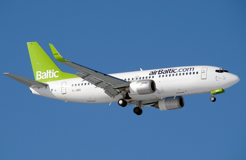 AirBaltic Boeing 737-300 (YL-BBK)